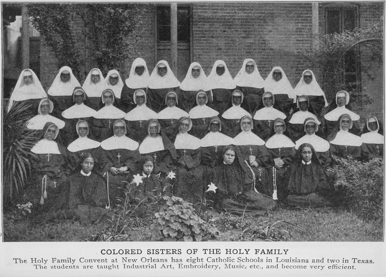 Colored Sisters of the Holy Family; The Holy Family Convent at New Orleans has eight Catholic Schools in Louisiana and two in Texas. The students are taught Industrial Art, Embroidery; Music, etc., and become very efficient.